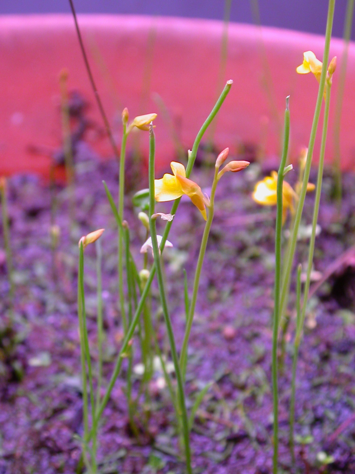 Utricularia bifida Image has been used on Micronesian postage stamp.